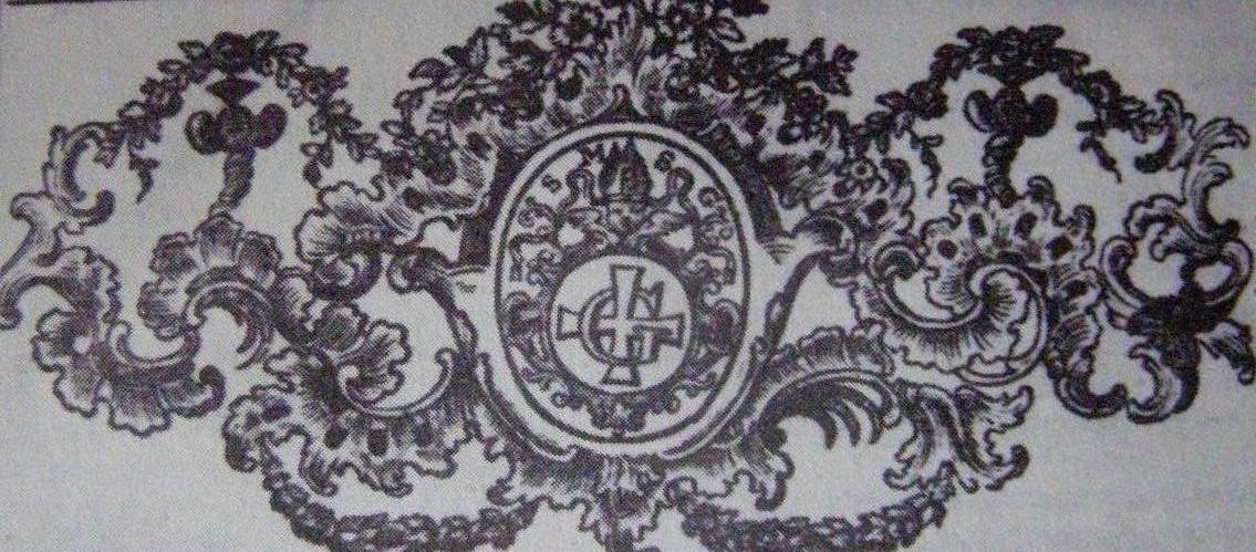 The seal of the Saint Gotthard Abbey